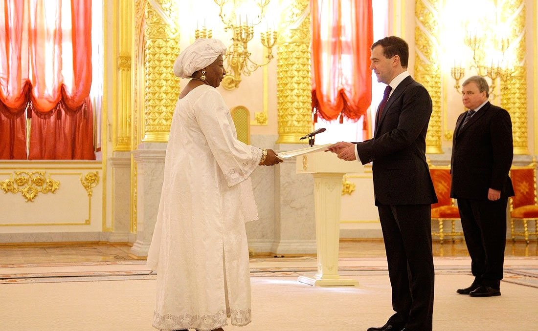 GRAND KREMLIN PALACE, MOSCOW. Presentation by foreign ambassadors of their letters of credence. Dmitry Medvedev receives a letter of credence from Ambassador of the Republic of Niger Amina Djibo Bazindre.